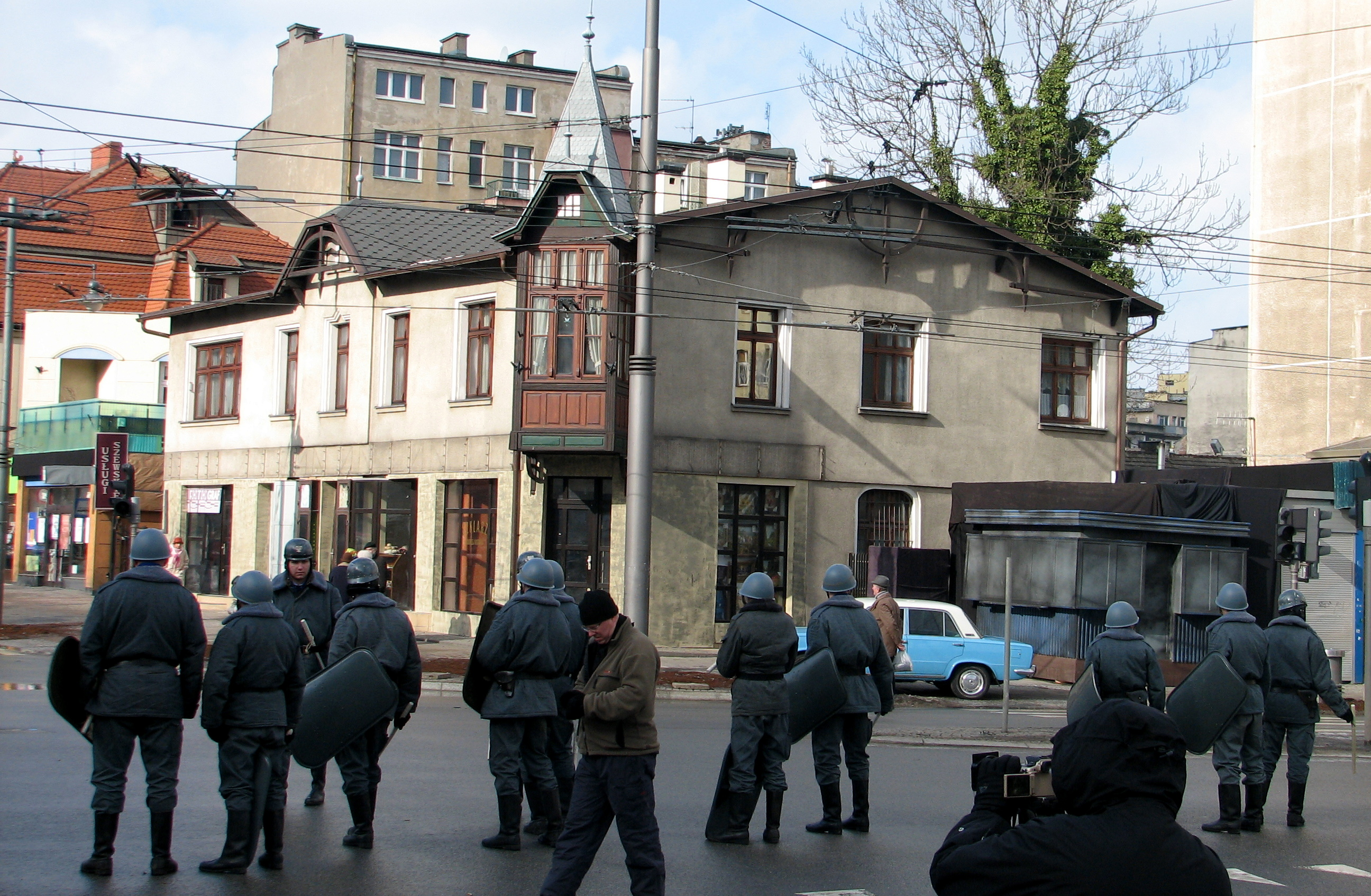 Filming of "Black Thursday" at the intersection of Świętojańska Street, Gdynia and 10 Lutego Street in Gdynia. People on this picture are actors, background actors, other workers of film crew or workers of subcontractors. "Black Thursday" is a film about Polish 1970 protests.